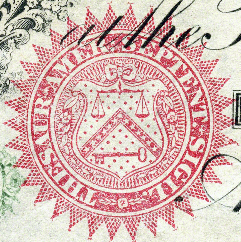 Treasury Seal from a $1 Legal Tender Note (1862)